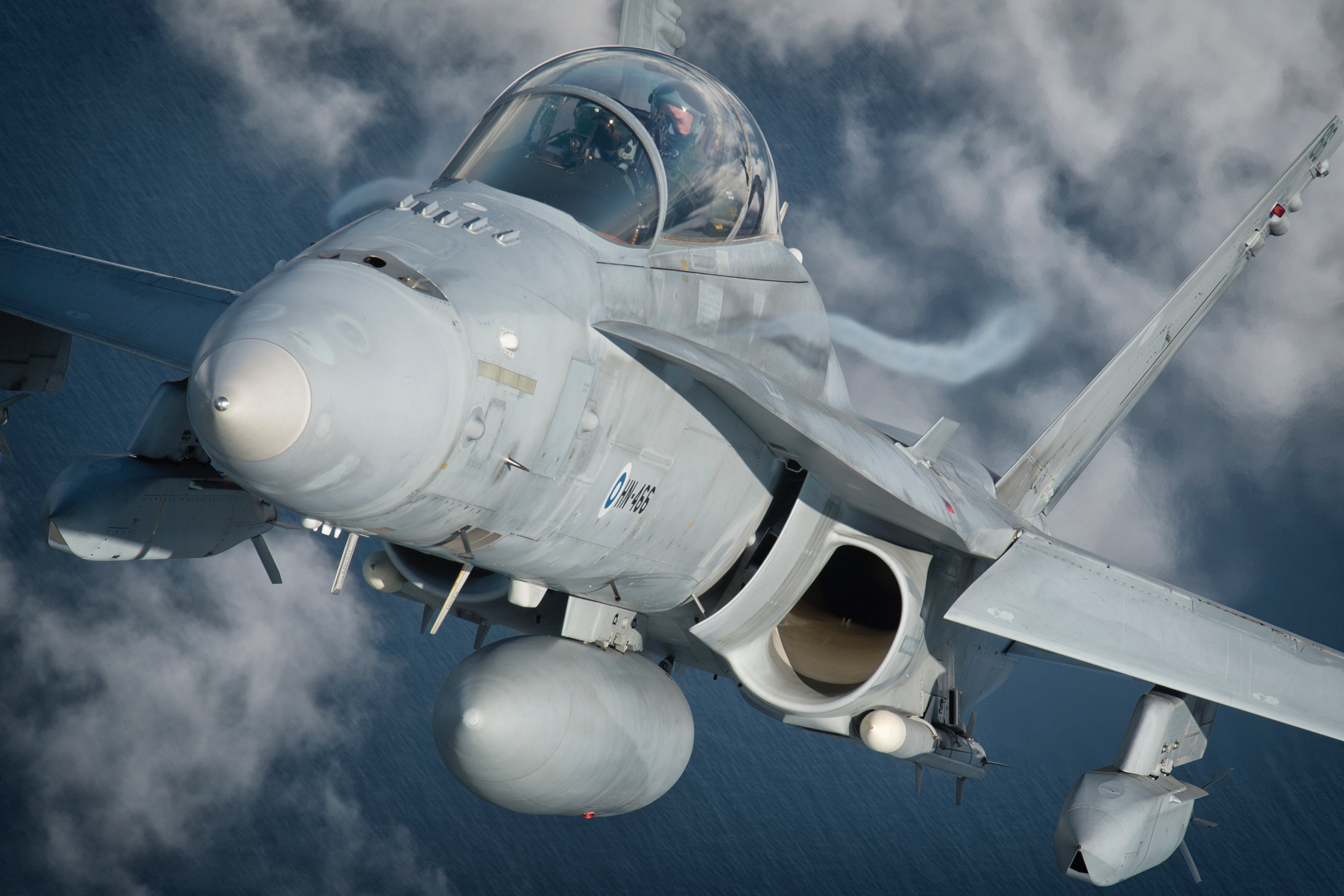 F-18D Hornet in service with the Finnish Air Force.